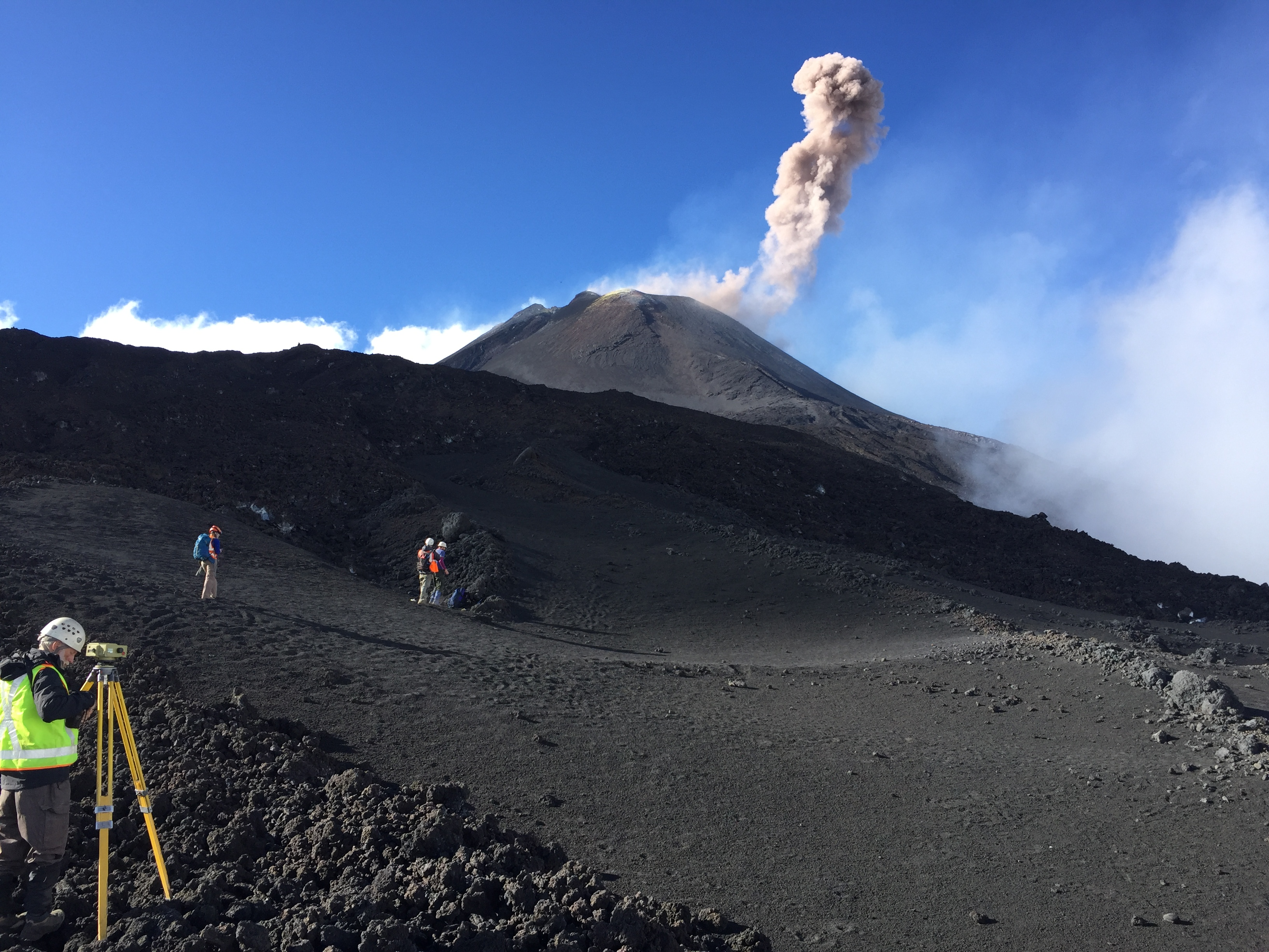 An occasional and rather modest level of activity seen on Mount Etna (Italy) during levelling field work, performed by the Open University team. Credit: Nikola Rogic (distributed via )